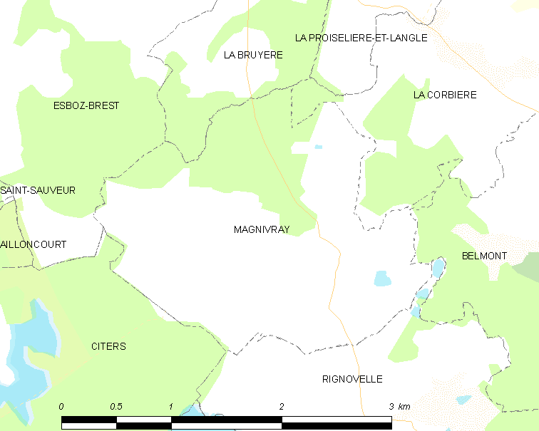 Map of French municipality